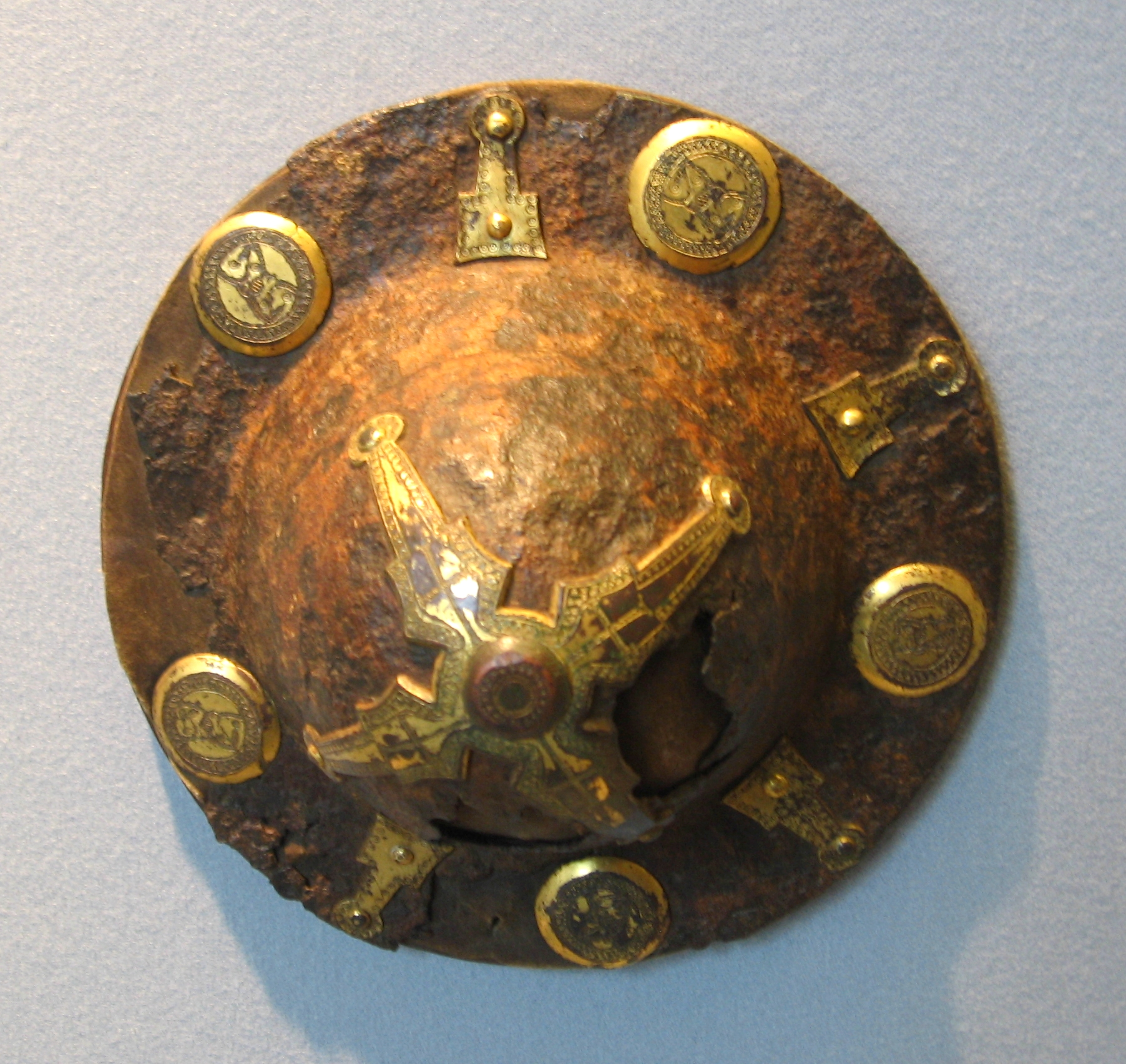 An iron shield boss or umbo. This shield boss is thought to have been made in northern Italy in the 7th century by the Lombards, also known as Langobards. The boss is decorated with gilt bronze. From the Metropolitan Museum of Art.